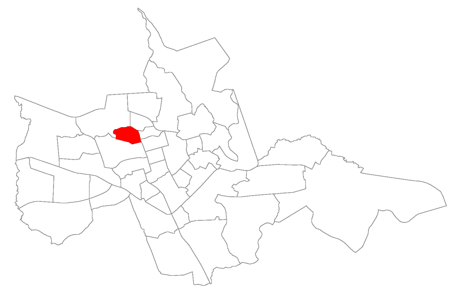 neighborhood/district of Santa Maria, Rio Grande do Sul